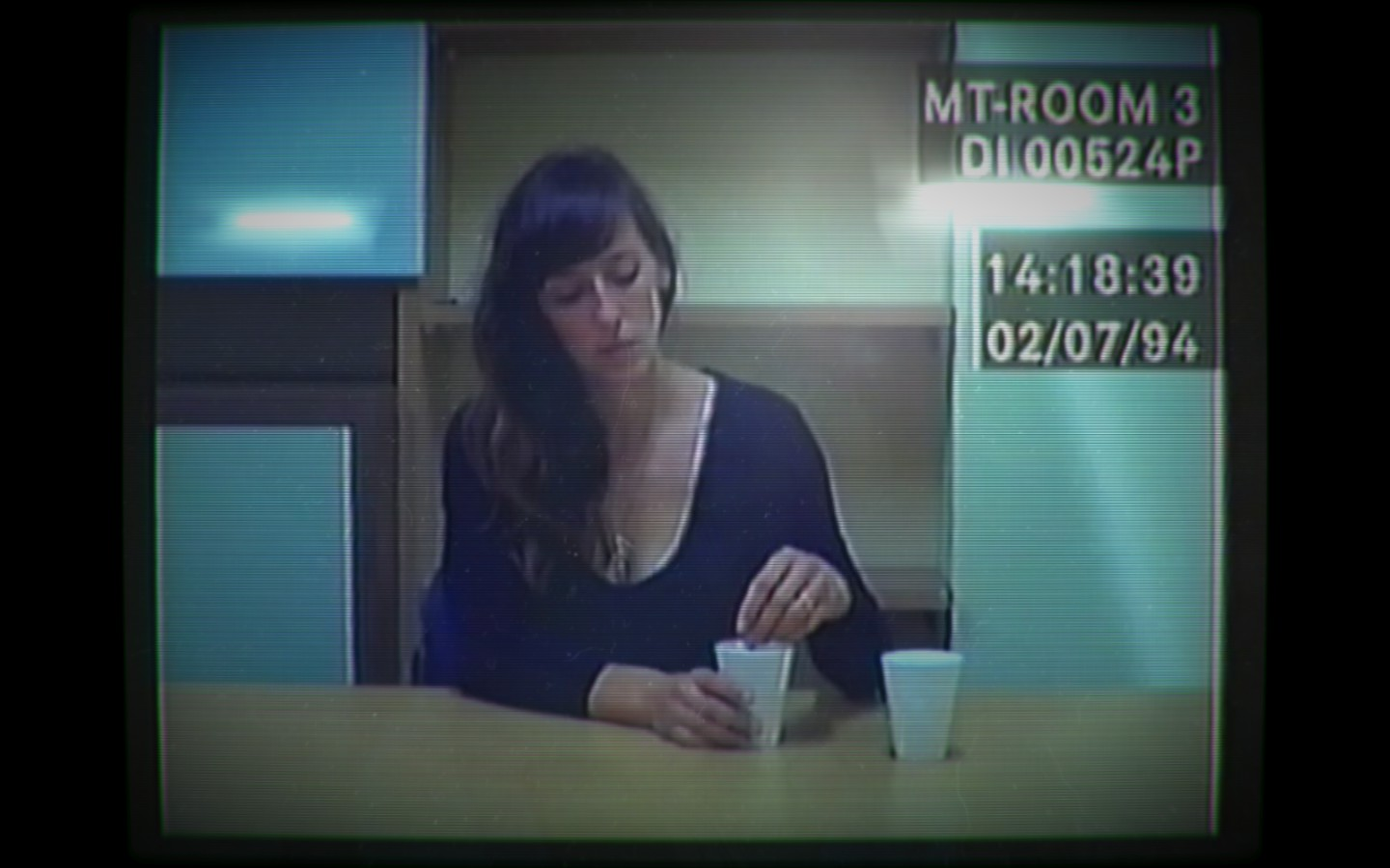 Screenshot from Her Story press kit